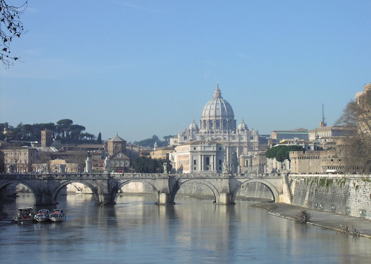 St. Peter's Basilica, believed to be the burial site of St. Peter, seen from the River Tiber. The iconic dome dominates the skyline of Rome. St. Peter's Basilica from the River Tiber. The iconic dome dominates the skyline of Rome. Saint Peter's Basilica in Rome. Christianity became the dominant religion of Western Civilization when the Roman Empire converted to Christianity. St. Peter's Basilica, believed to be the burial site of St. Peter, seen from the River Tiber. Saint Peter's Basilica.